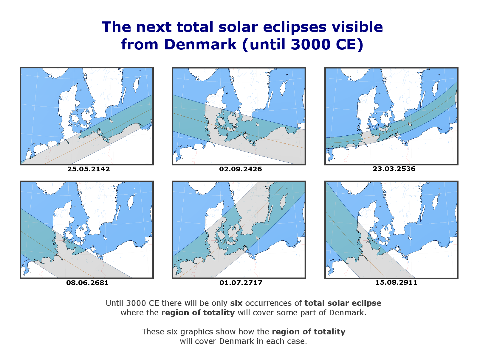 A graphic that shows the next six total solar eclipses visible from Denmark.